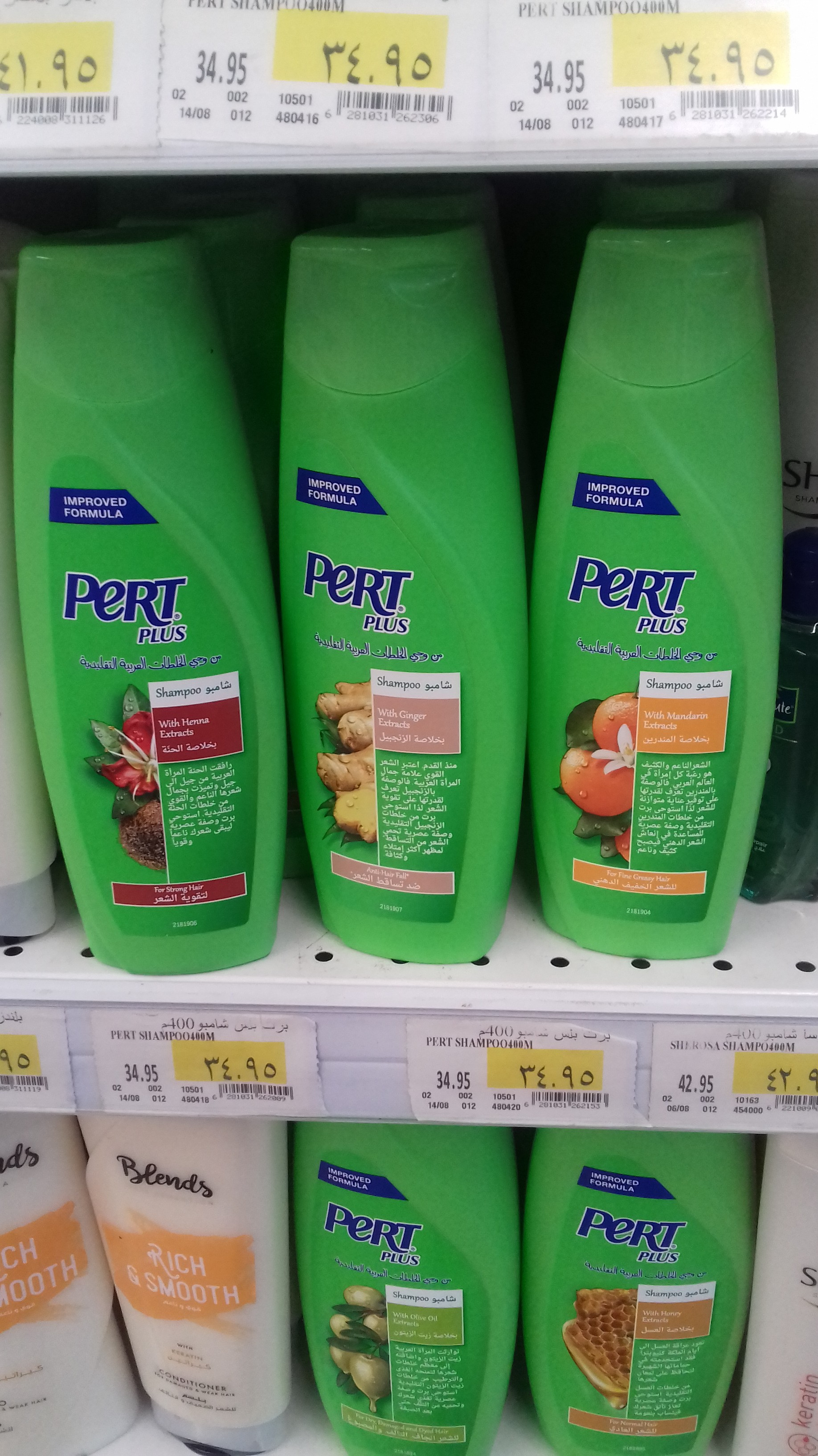 Pert Plus brand of shampoo displayed in a store in Cairo, Egypt. The labels are in Arabic.